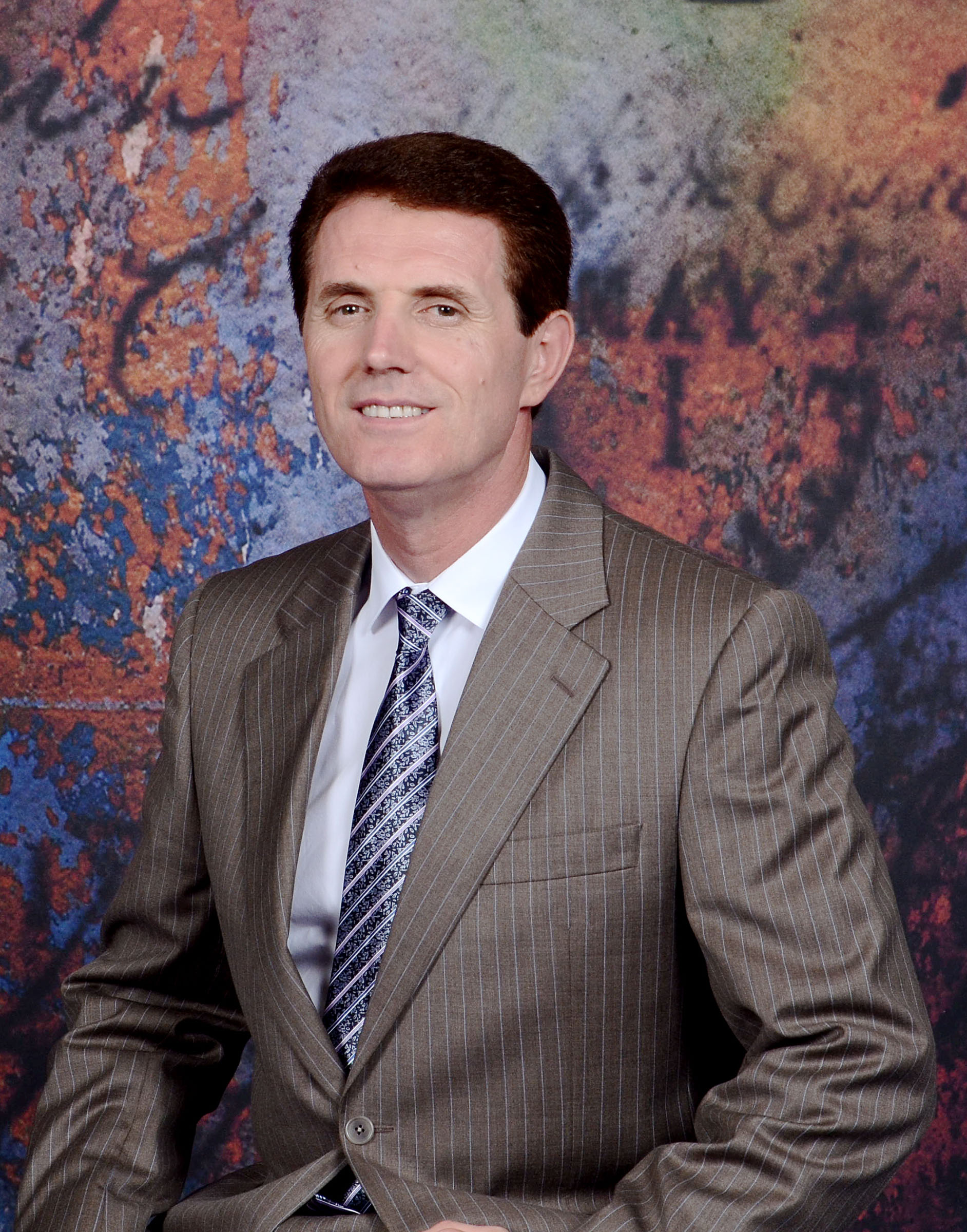 Marinaj poses for his fans at a Book-Signing event in November 2013, in Honolulu, Hawaii